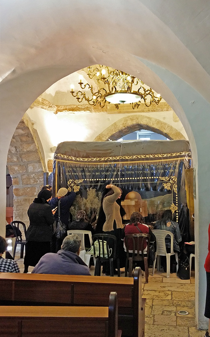 Rachel Tomb in Bethlehem